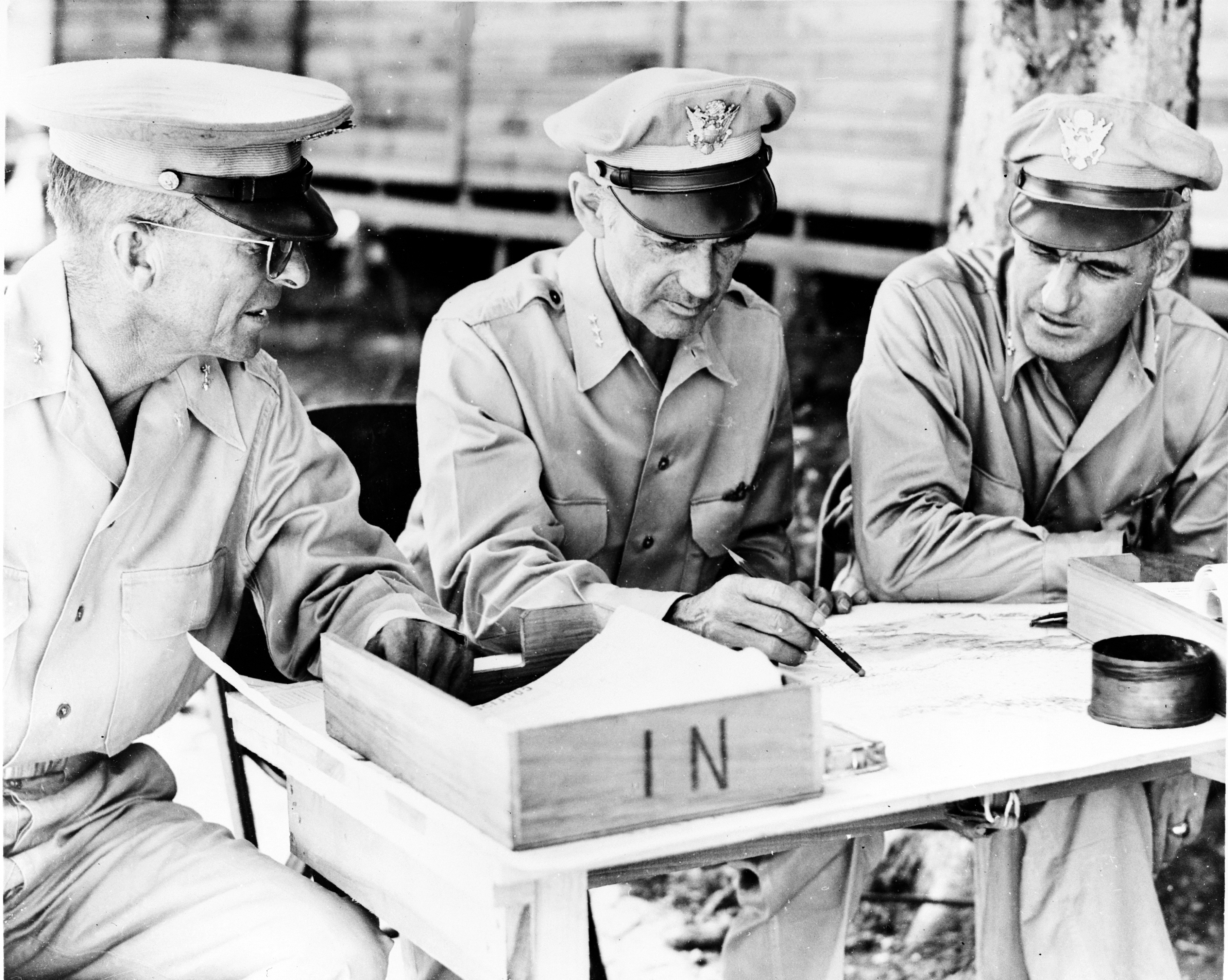 United States Army ground and air generals confer with their Chief, Lieutenant General Millard F. Harmon, commanding Army forces in the South Pacific area, at the close of the successful Guadalcanal campaign. Major General Alexander M. Patch, Jr., left, who commanded the Guadalcanal ground action; General Harmon and Major General Nathan F. Twining, commanding the Army's Air Forces in the South Pacific.